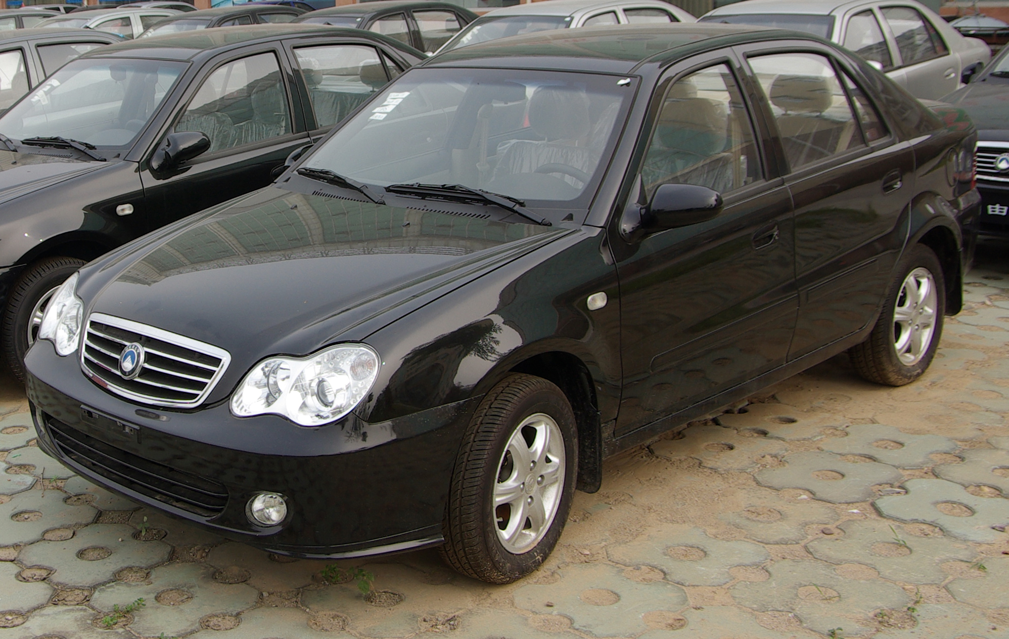 Geely CK II, a facelifted version of the original CK